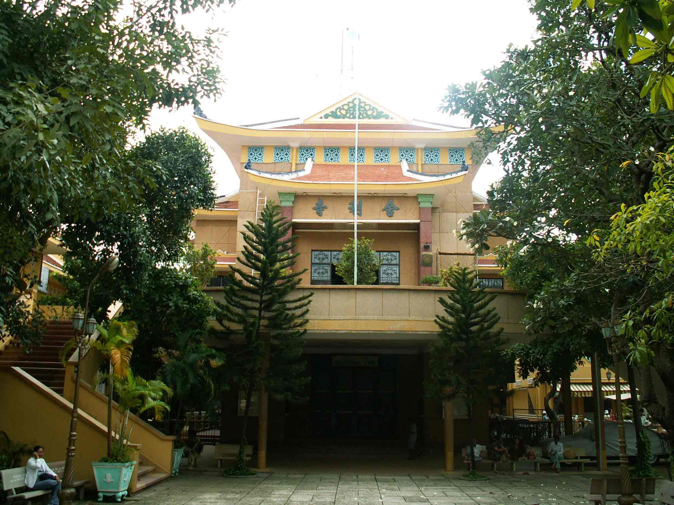 Main hall of Xa Loi Pagoda